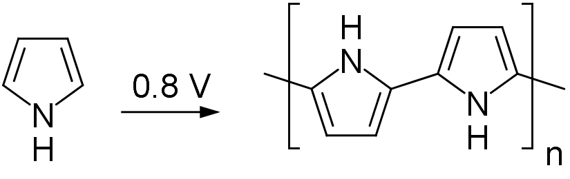 Electro-polymerisation of Pyrrole.